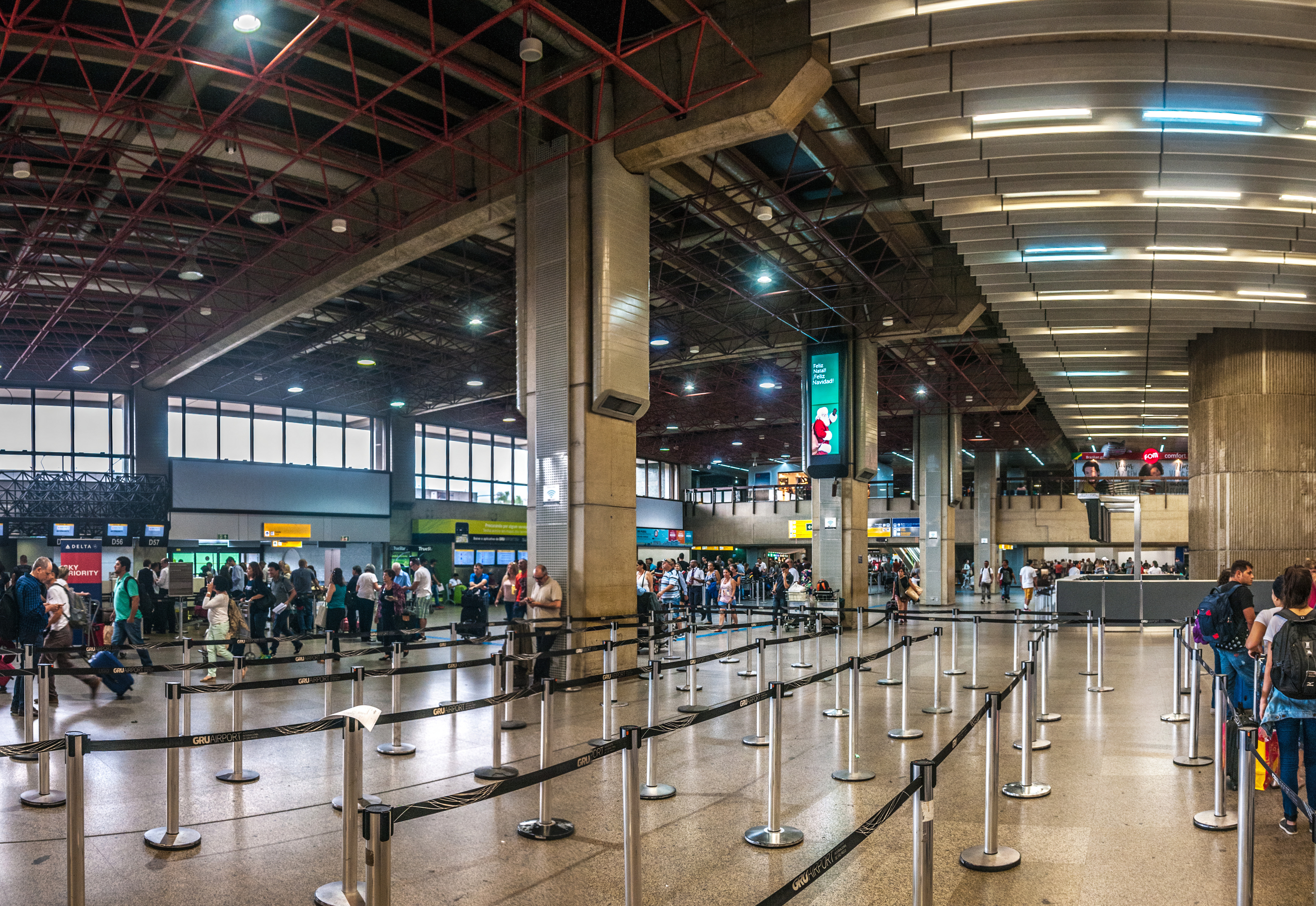 Guarulhos International Airport, São Paulo, Brazil